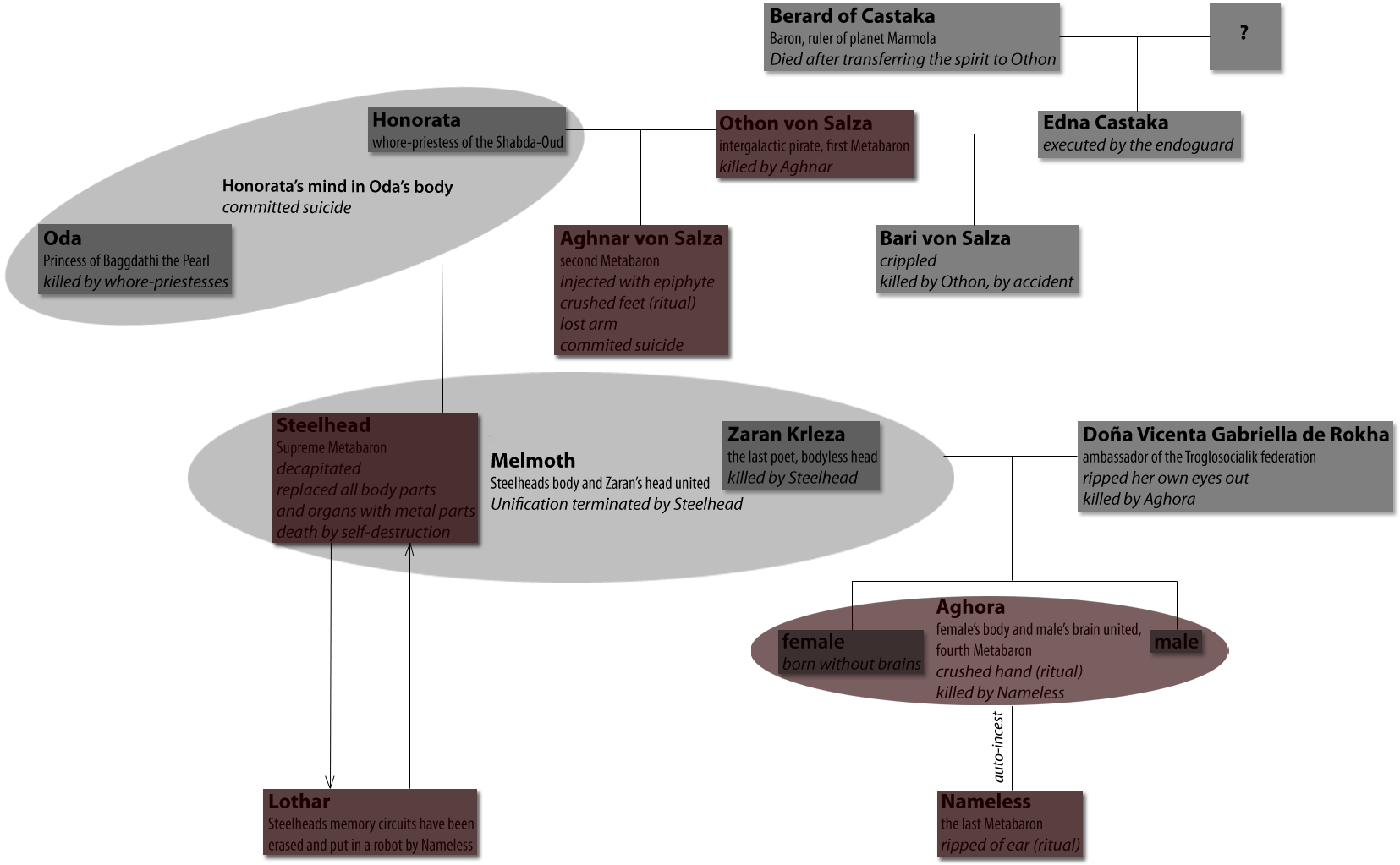 A family tree of the Metabarons (comic book series)